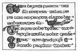 Irish writing of VIII century